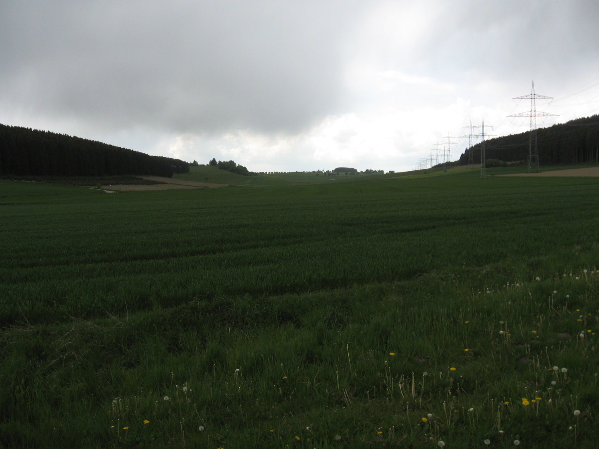 Landschaftsschutzgebiet Wintertal/Escherfeld: Blick von Landstraße Brilon nach Rixen nach Westen Richtung Altenbüren. Rechts Freileitungen (Bl. 1561 und Bl. 4335).